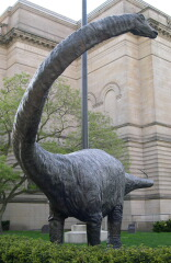 Photo of Dippy, a statute outside the Carnegie Museum of Natural History in Oakland, Pittsburgh.40°26′36.7″N 79°57′5.3″W / 40.443528°N 79.951472°W